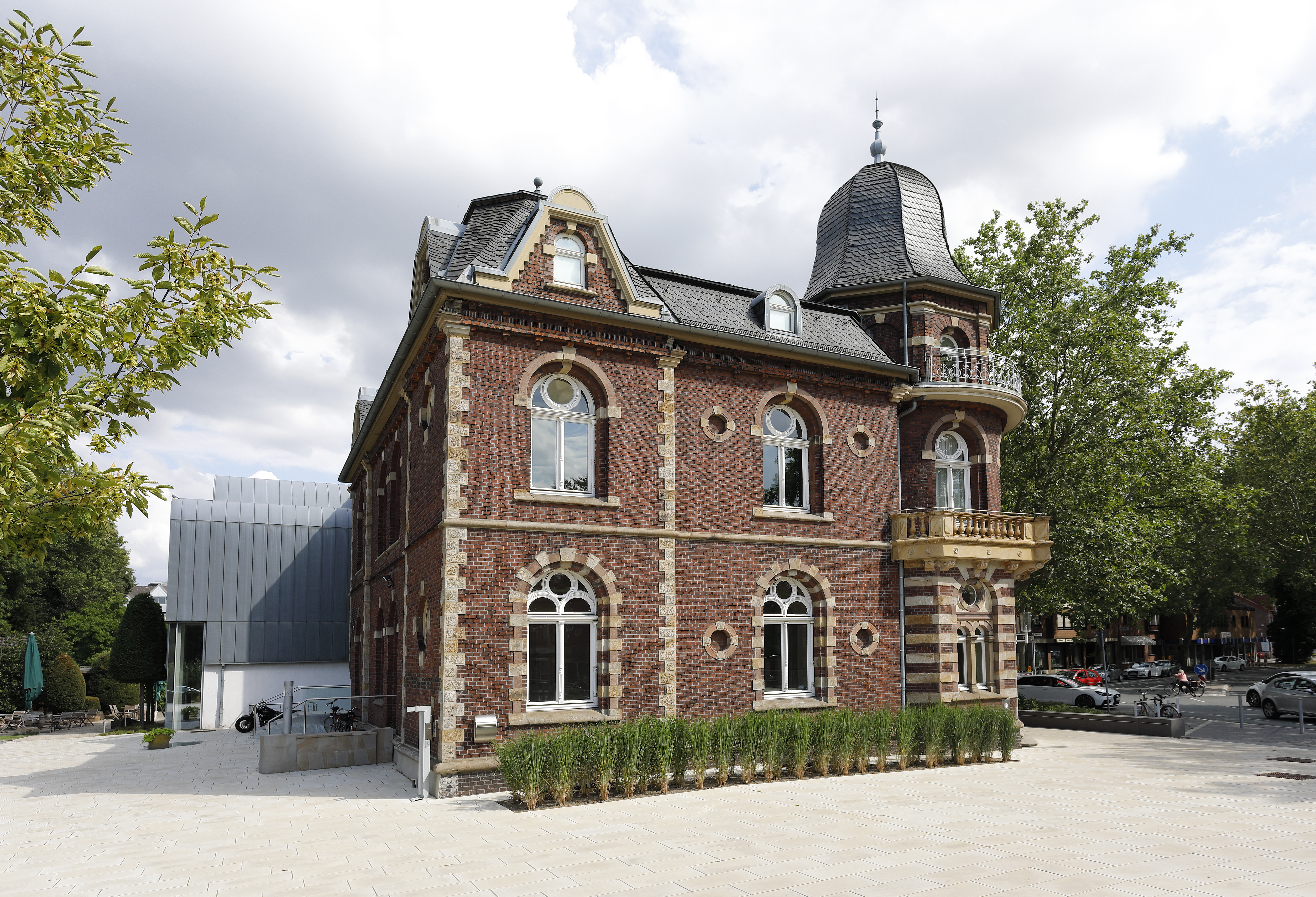 Kunstmuseum Ahlen, outside, old part, view from north-west